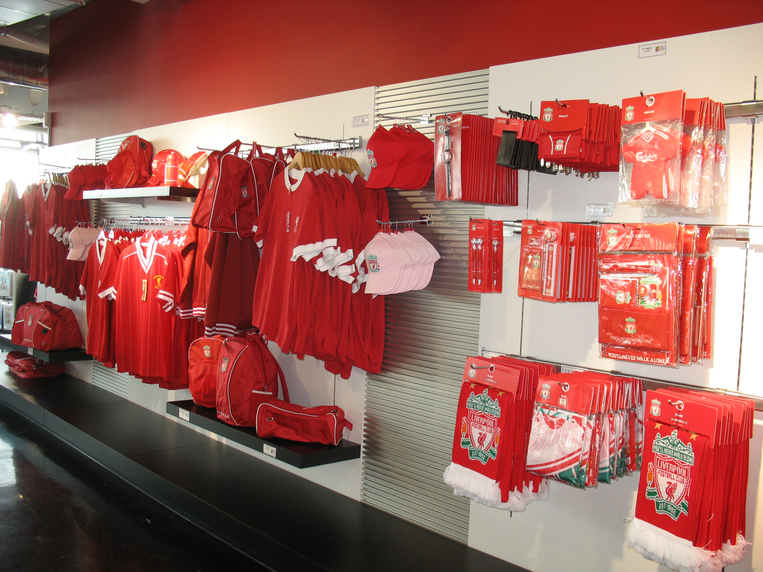 Liverpool FC fan store, Liverpool Pier Head Ferry Terminal, Liverpool, England